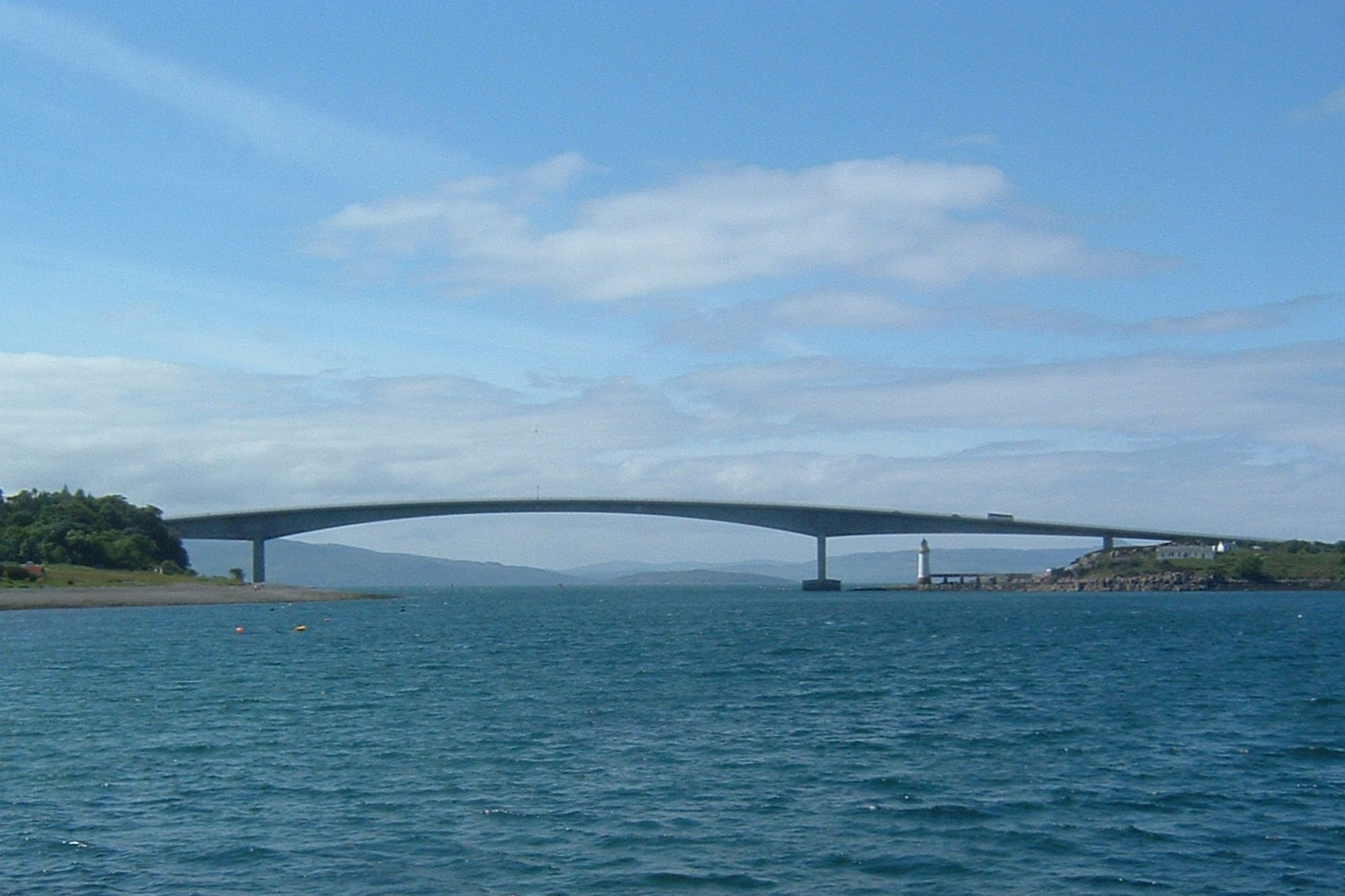 Description: The Skye Road Bridge which connects the Isle of Skye to mainland Scotland Source: private picture Date: Friday, 10. June 2005 Author: Jörn Albring Permission: albring